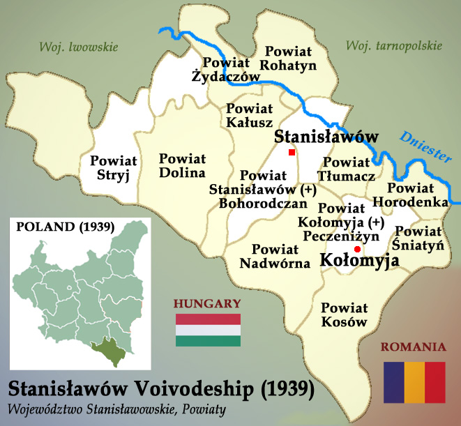 Map of Stanisławów Voivodeship (Polish: Województwo Stanisławowskie) before the onset of German and Soviet invasion of Poland in September 1939.